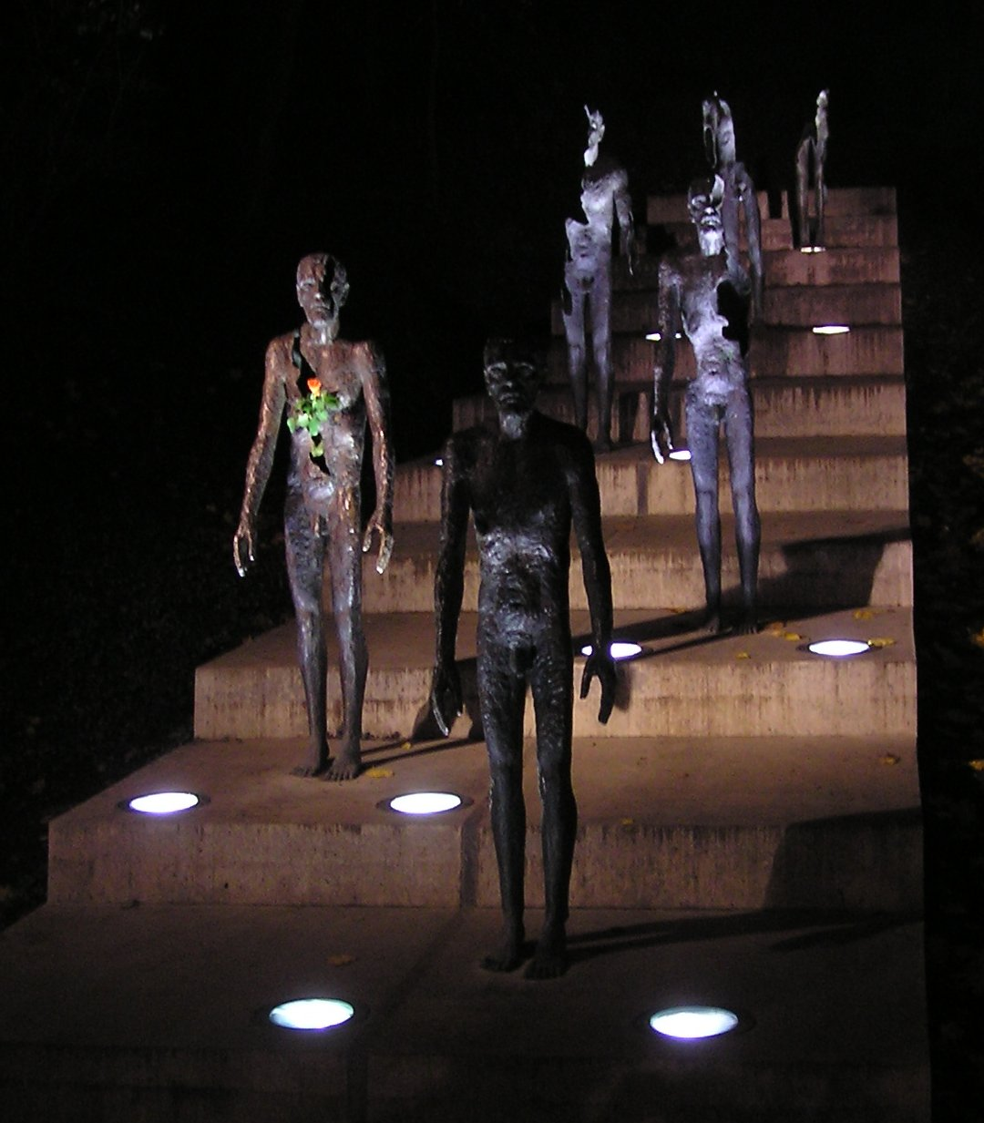 Memorial to the victims of communism, Prague, 2006-11-17.